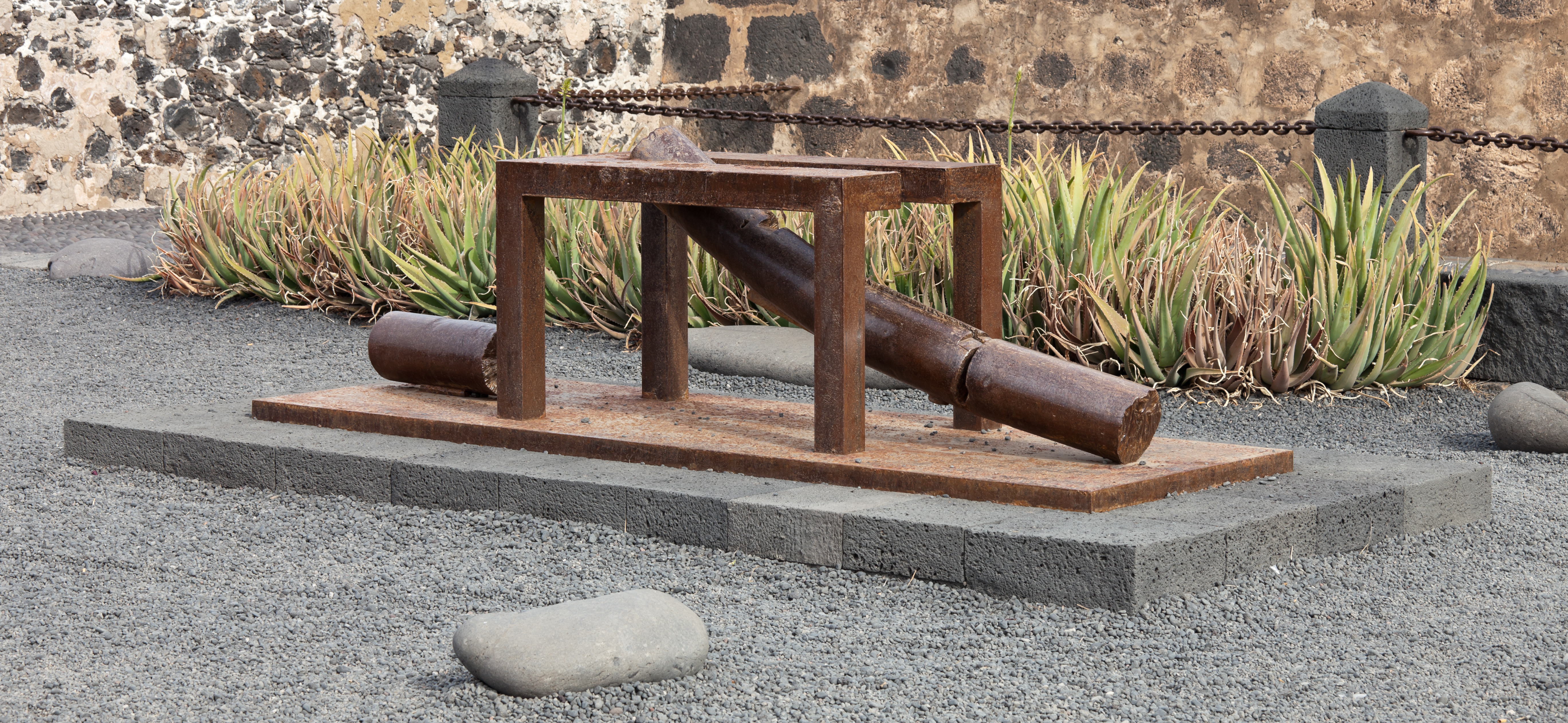 Sculpture. Outside of the Castle of San José, Arrecife, Lanzarote, the Canary Islands, SpainGalego: Escultura no exterior do Castelo de San Xosé, Arrecife, Lanzarote, Illas Canarias, España